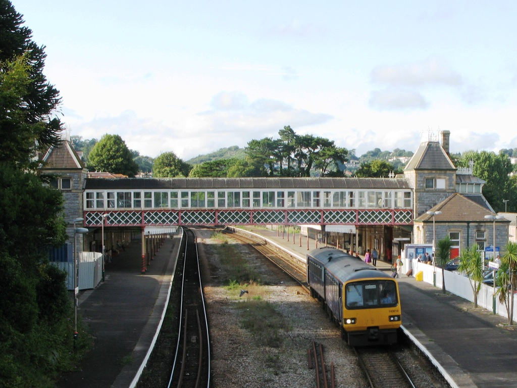 143612 pulls away from Torquay station in Devon, England, with a Riviera Line service from Exmouth to Paignton.